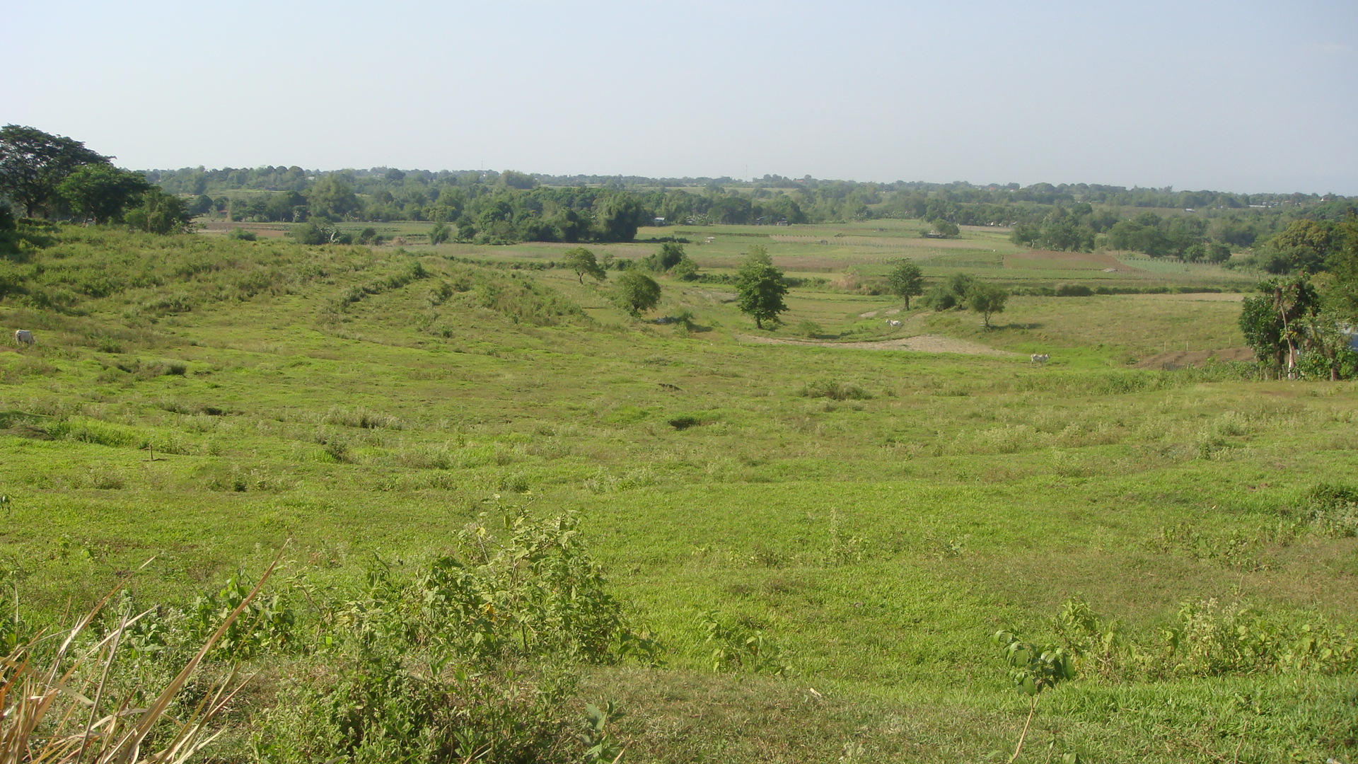 Pasture grazing, grass fields (Upig, San Ildefonso, Bulacan)